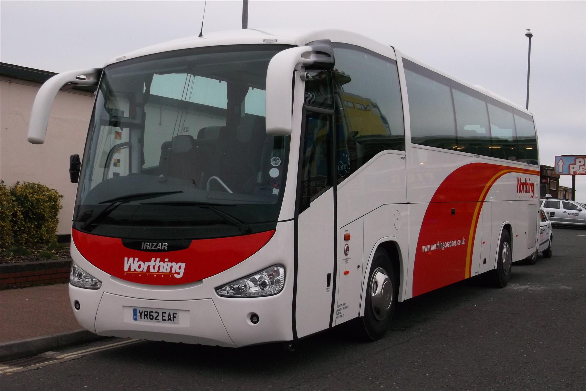 YR62 EAF - A Scania K340EB4 / Irizar Century in the new Worthing Coaches colour scheme.